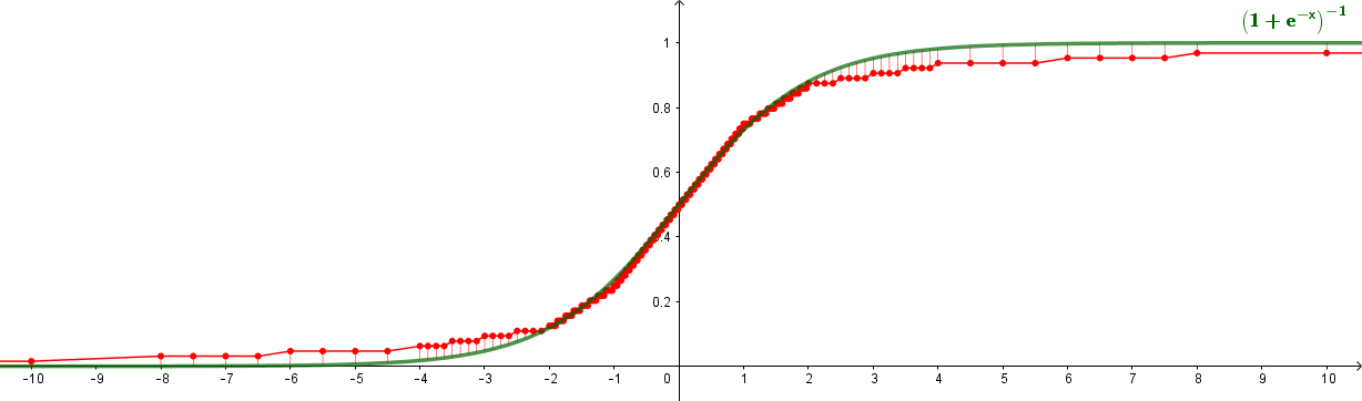 green: sigmoid function 1/(1+e^x) red: values of the fast_sigmoid implementation